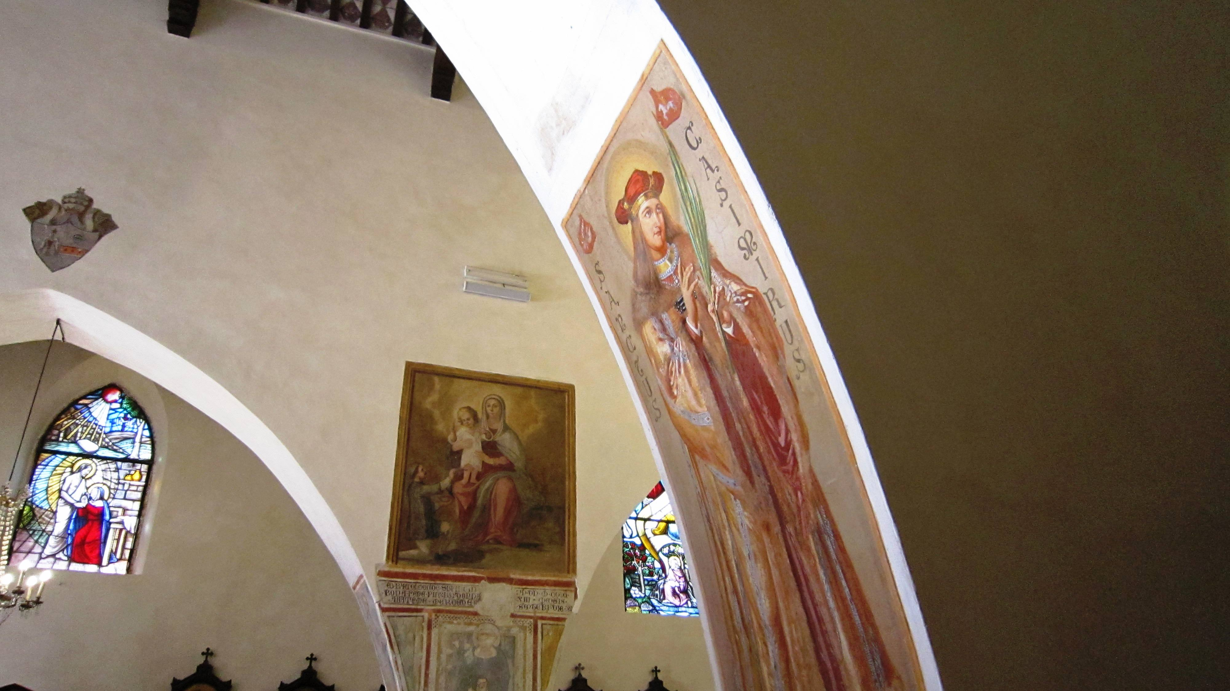 MENTORELLA particolare interno